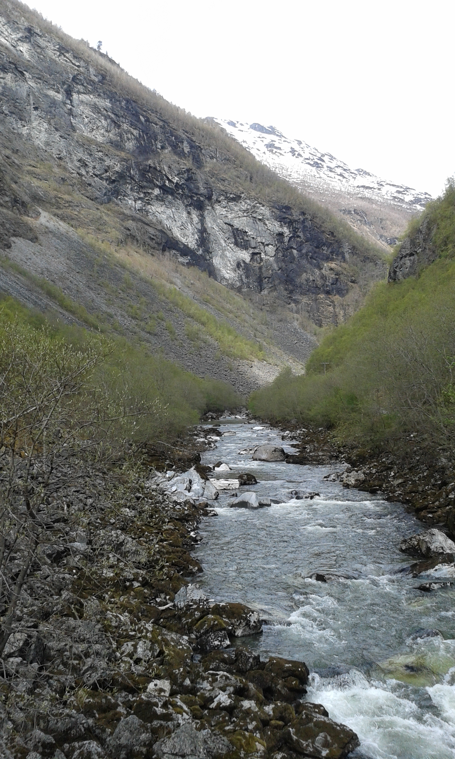 Utladalen near Vetti Gard